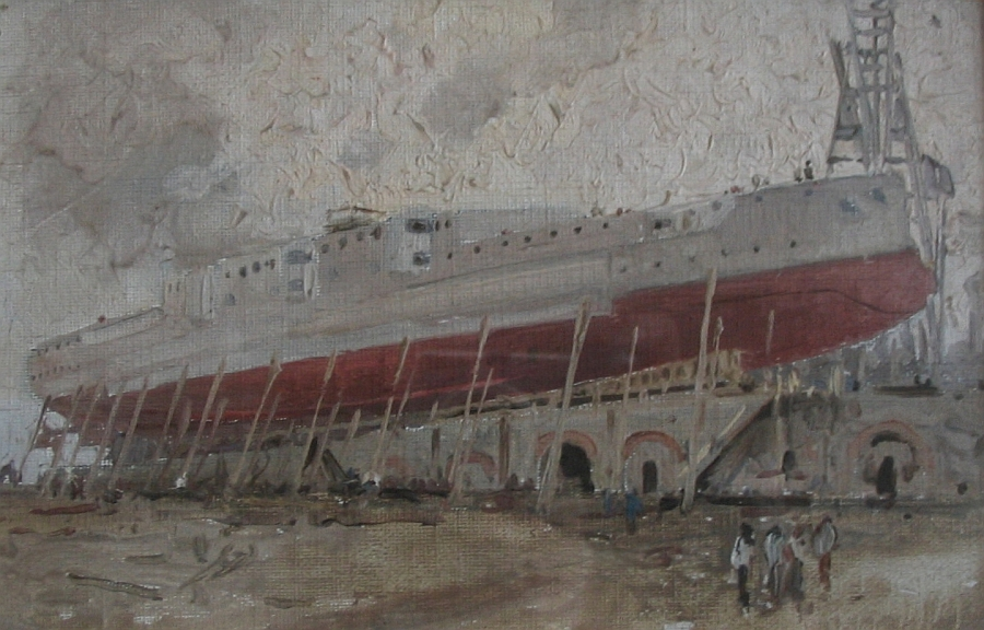 It is a sketch for a painting. - This is a battleship of k.u.k. Habsburg-class on the slipway of Stabilimento Tecnico Triestino (S.T.T.) shipyard.